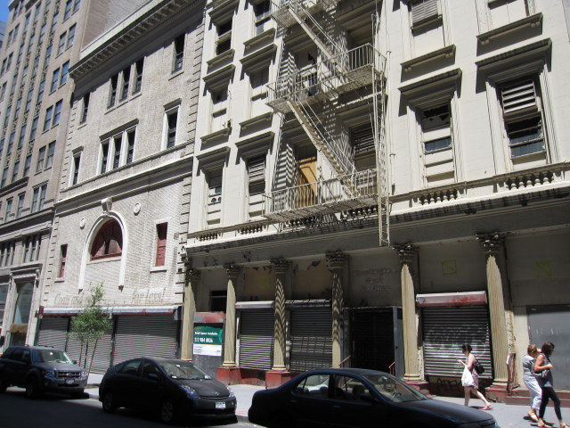 45 Park Place in Manhattan, the former Burlington Coat Factory.